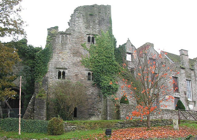 Hay Castle, Hay-on-Wye The castle has been under attack many times throughout its history. It was destroyed by King John in 1216. In 1977 a great part of it was destroyed by fire.